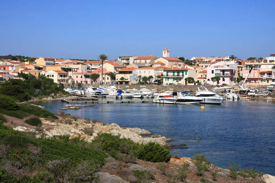 View of Stintino, Sardinia